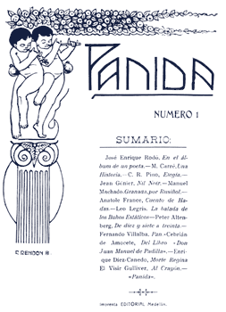 Cover of the 1st issue of the Colombian Literary Magazine "Panida". Issue director: León de Greiff, illustrations: Ricardo Rendón, content: various writers, publisher: Imprenta Editorial Medellín.